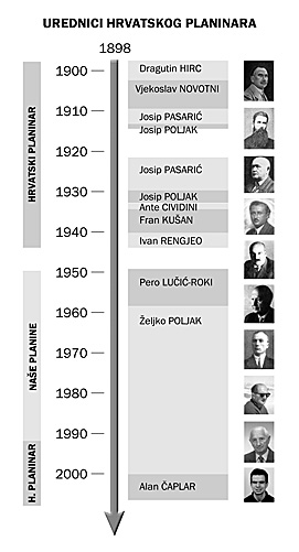 Hrvatski planinar - editors